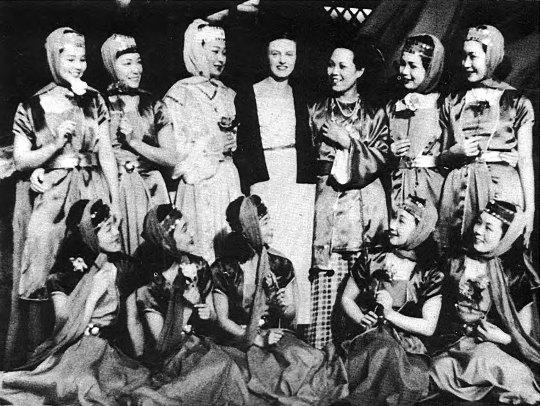 Olga Sapphire, center, and Japanese theater dance group. Tokyo. 1936.